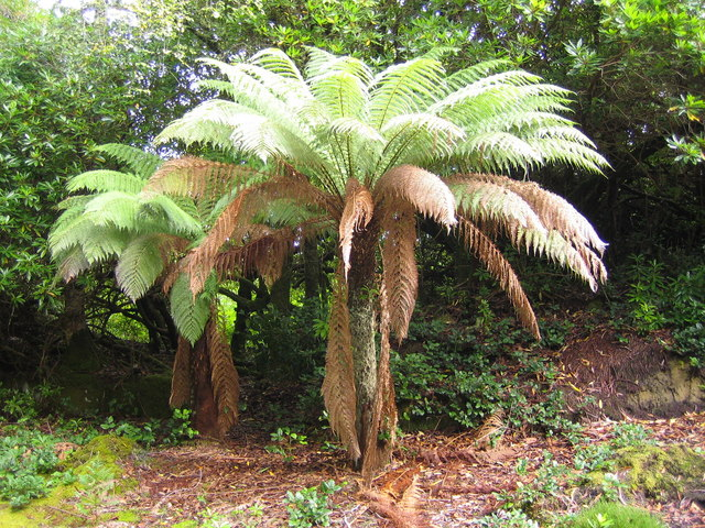 Láithreach (Lauragh): Derreen Garden Two self-seeded individual tree ferns, Dicksonia antarctica, in the north east corner of Derreen Garden.